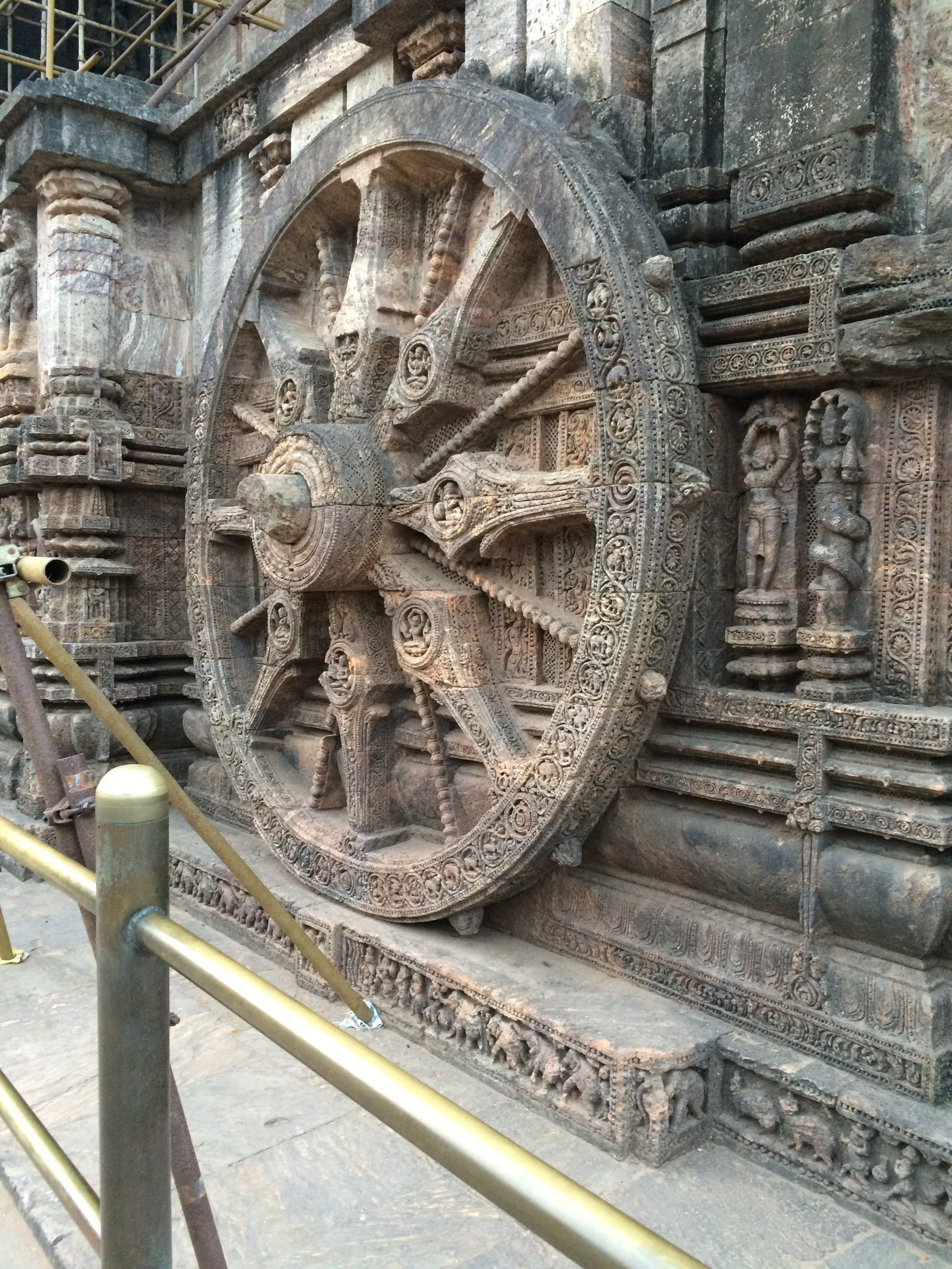 Konark Sun Temple : Exquisite stone carved wheel